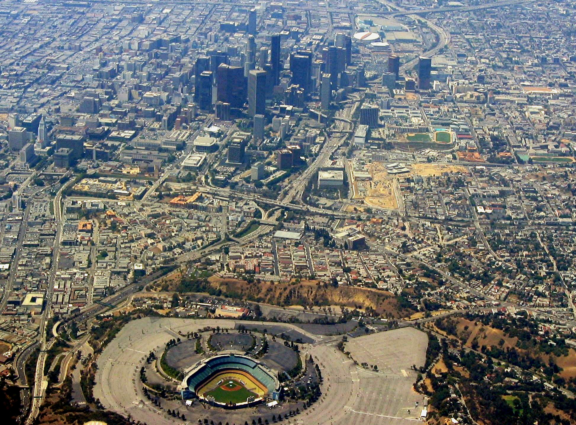 Dodger Stadium is located in an area that was known as Chevez Ravine before the stadium was built in 1962.